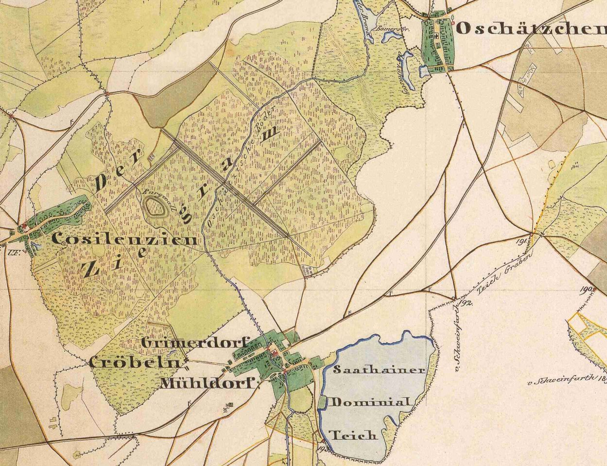 Ziegram, Lkr. Elbe-Elster, Brandenburg, Germany, detail from the Urmesstischblatt Sheet 4546 Gröditz, drawn in 1847